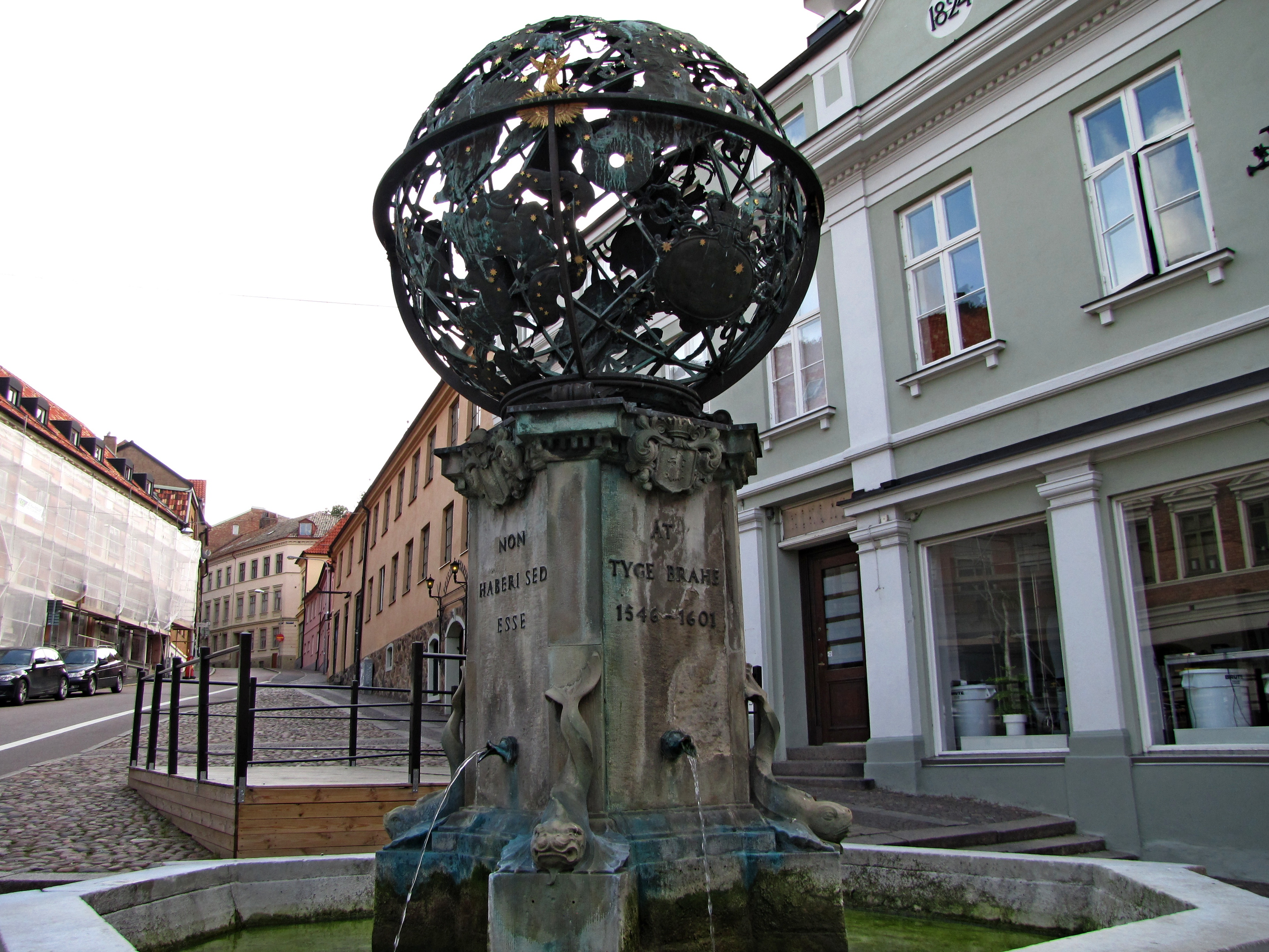 Fountain dedicated to the astronomer Tycho Brahe in Helsingborg, Sweden.